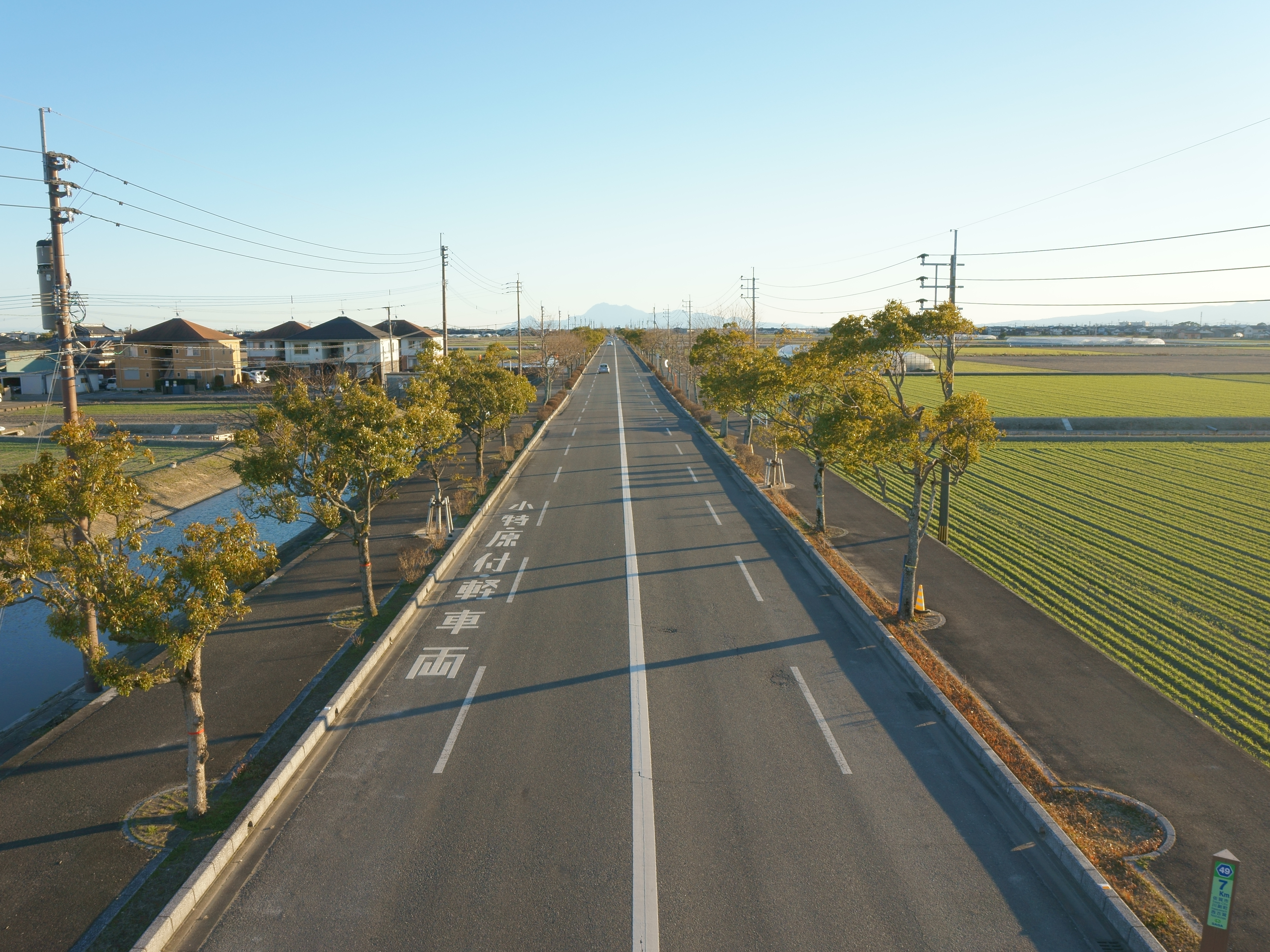 Saga prefectural road No.49 "Saga Airport line" to Saga Airport, taken from a footbridge in Kawasoe, Saga city.